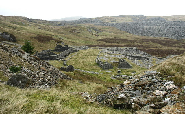 The Blaen-y-cwm mill from the internal tramway leading to the top of the Blaen-y-Cwm pit. This tramway was linked to the floor of the pit by an uphauling incline. Quarried rock from the pit (and prior to the untopping from the underground workings) was transported along the tramway to the Blaen-y-Cwm exit incline and down hauled to the mill.Finished slate would then be uphauled to the Rhiwbach Tramroad.